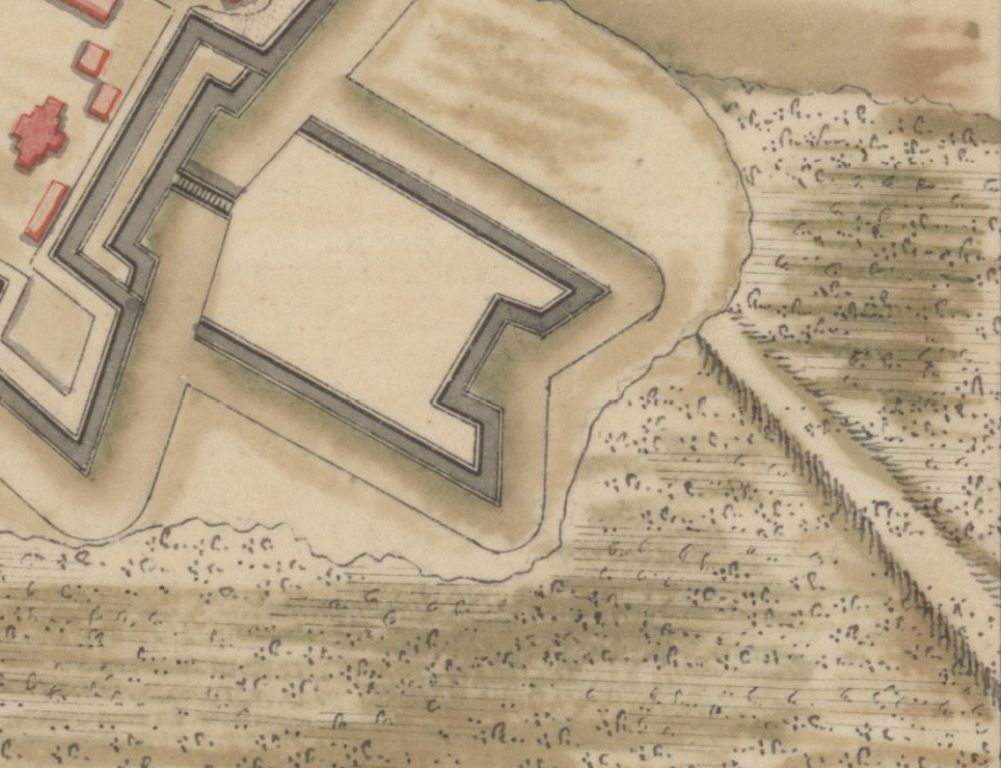 way in Slutsk, Belarus Грэбля ад Новага замку ў Слуцку.